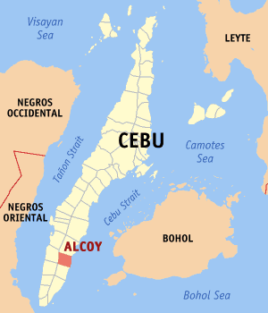 Map of Cebu showing the location of Alcoy